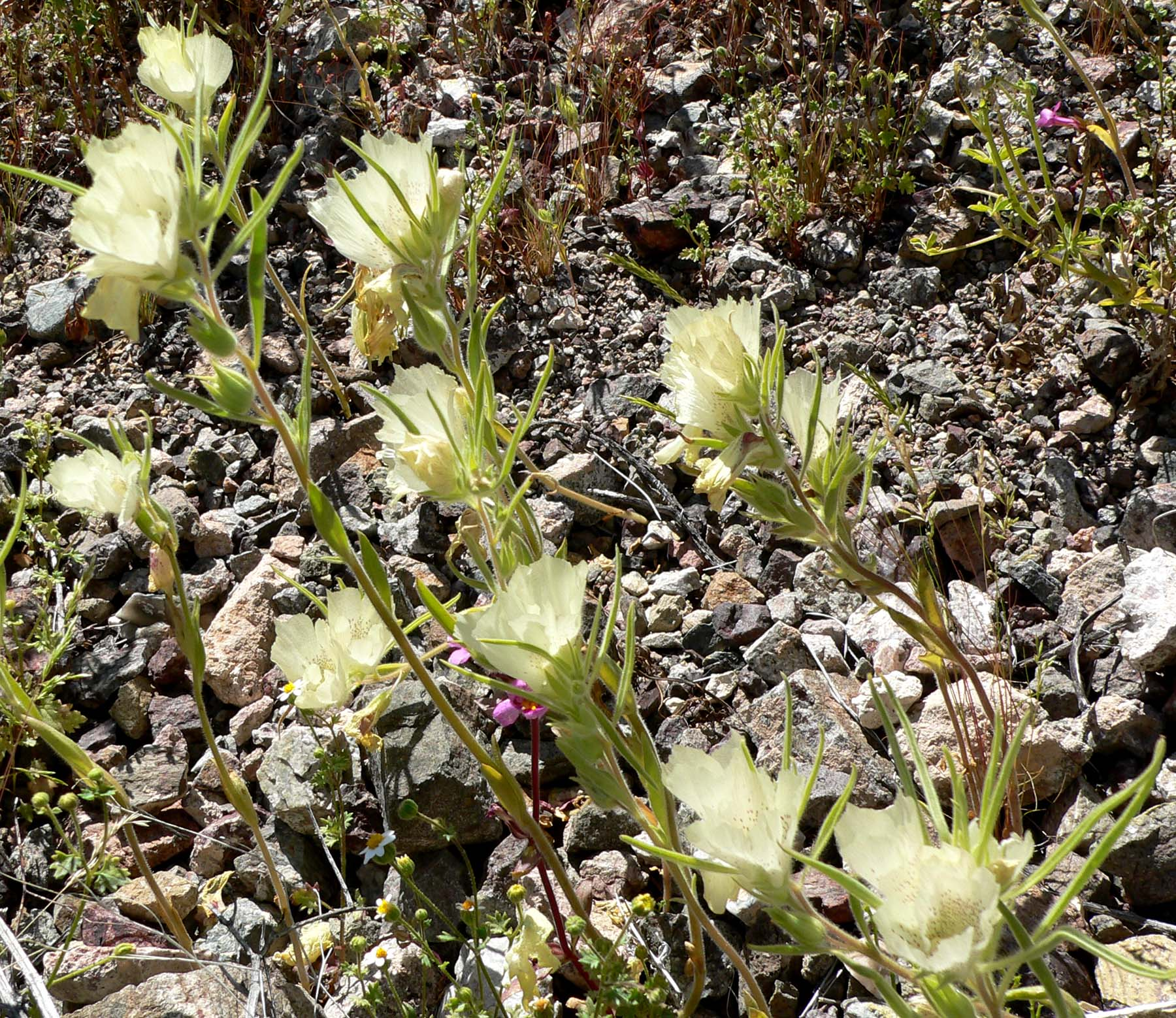 Photo of Mohavea confertiflora (ghost flower) in Nelson Canyon, Nevada